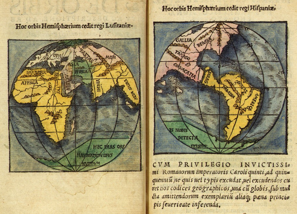 A map of the world (c.1527) by Monachus showing two halves of the globe that he had constructed. For full descriptions of the globe see Franciscus Monachus.